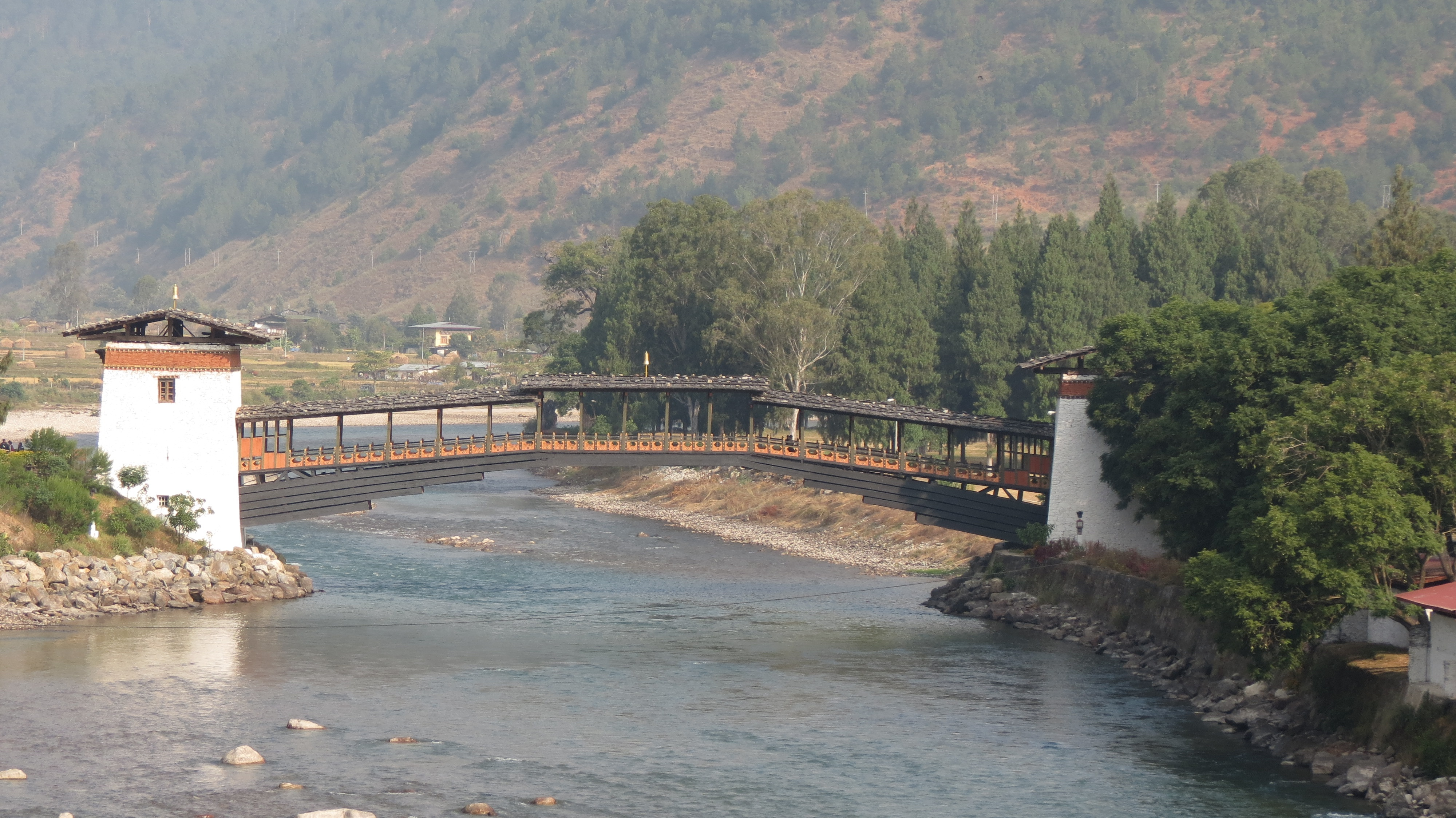 Punakha Cantilever Bridge